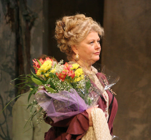 Russian actress Irina Muravyova playing Arkadina in Chekhov's "The Seagull"